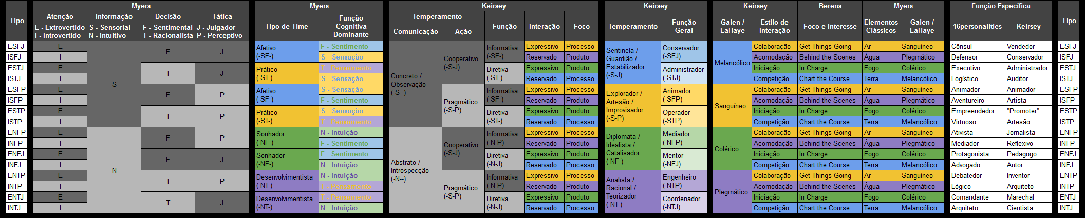 Table listing the 16 personality types as the theories of Myers-Briggs and David Keirsey.